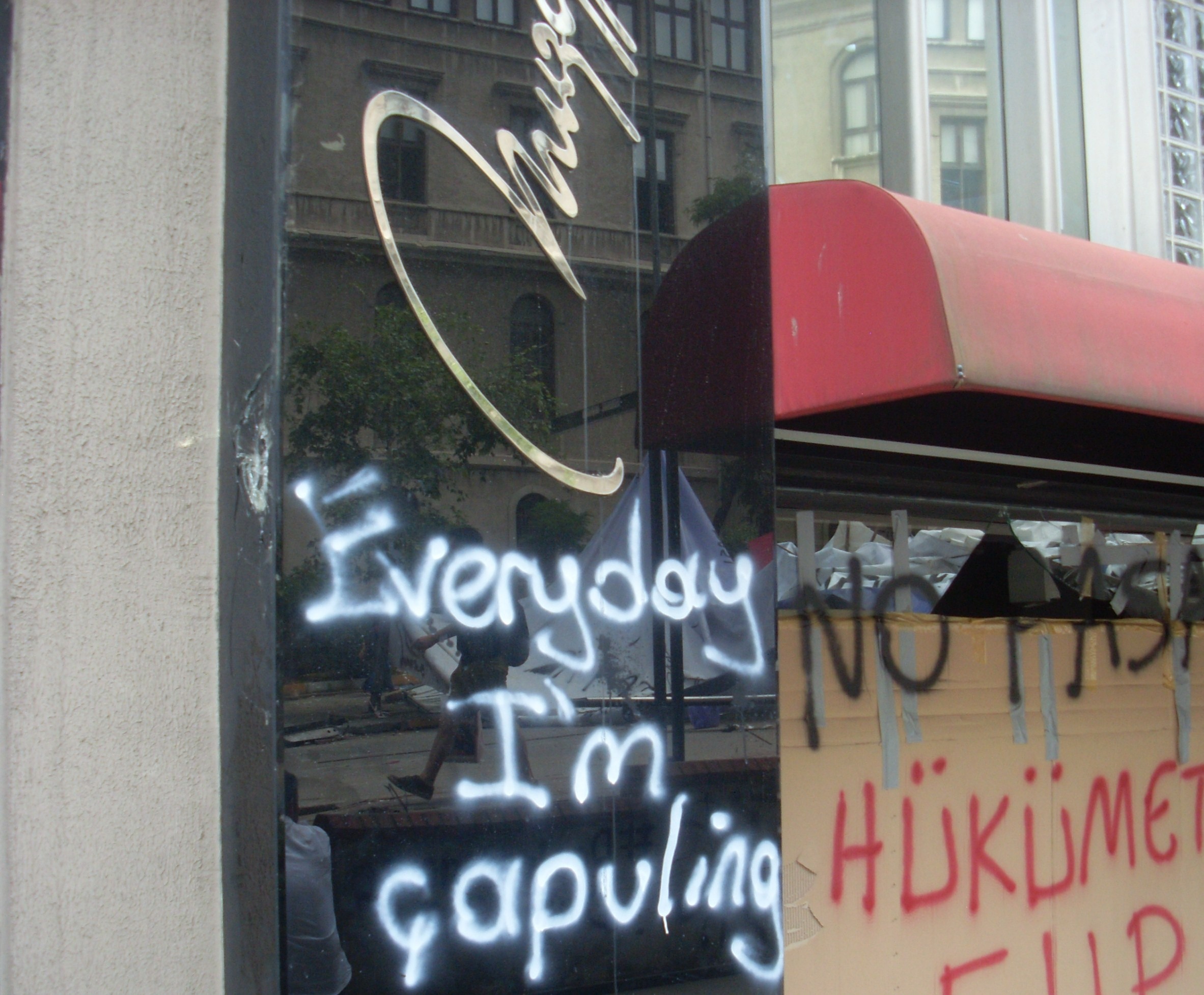 2013 Taksim Gezi Park protests, a Chapulling grafitti at İnönü Street, Gümüşsuyu, Taksim 2